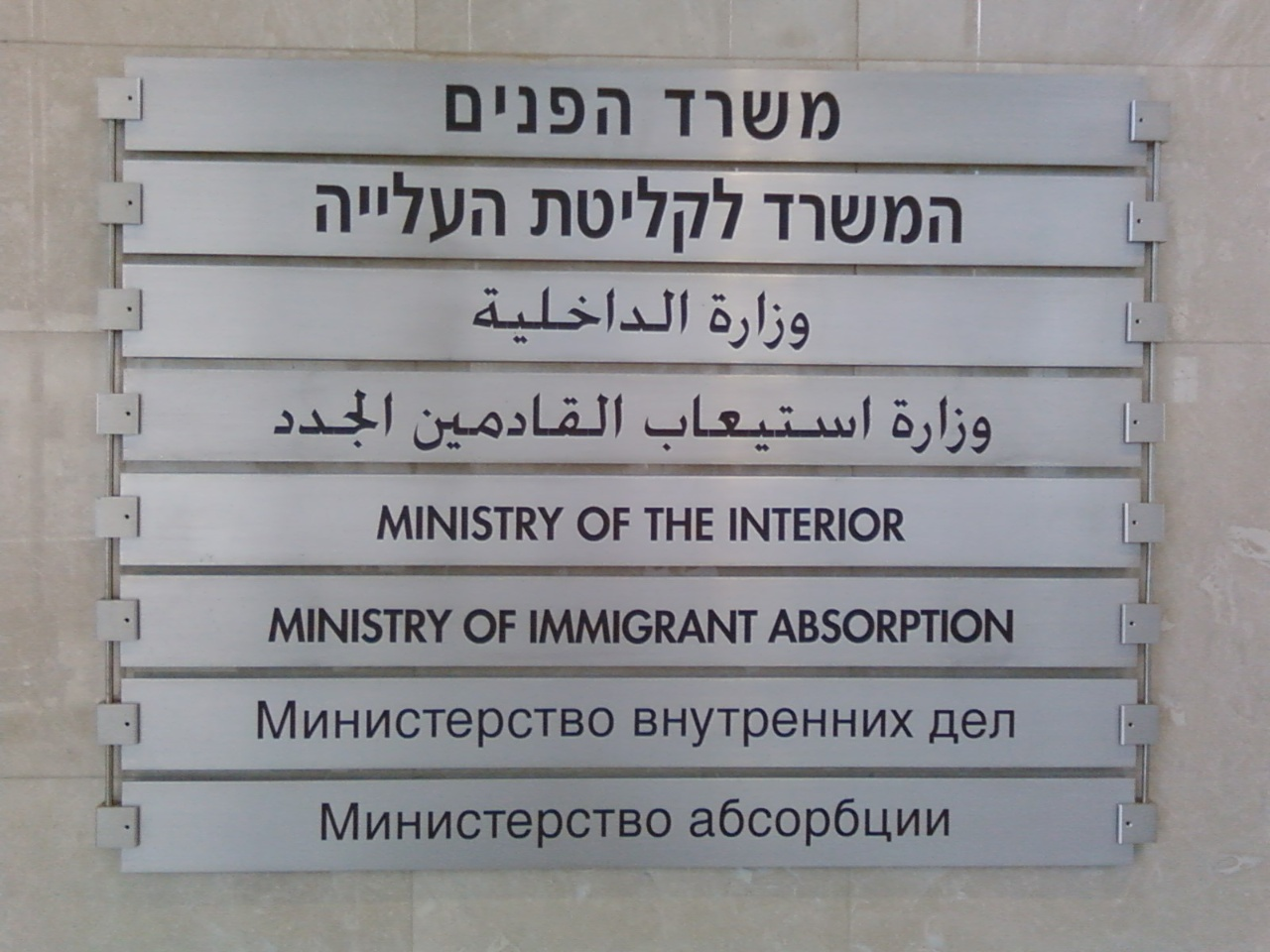 A sign at the Ministry of the Interior/Ministry of Immigrant Absorption at the Government Village, Haifa. From top to bottom: Hebrew, Arabic, English, and Russian.